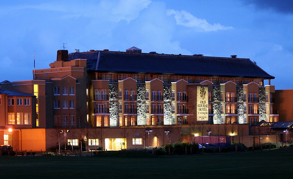 Old Course Hotel Old Course Hotel at night taken from road in front